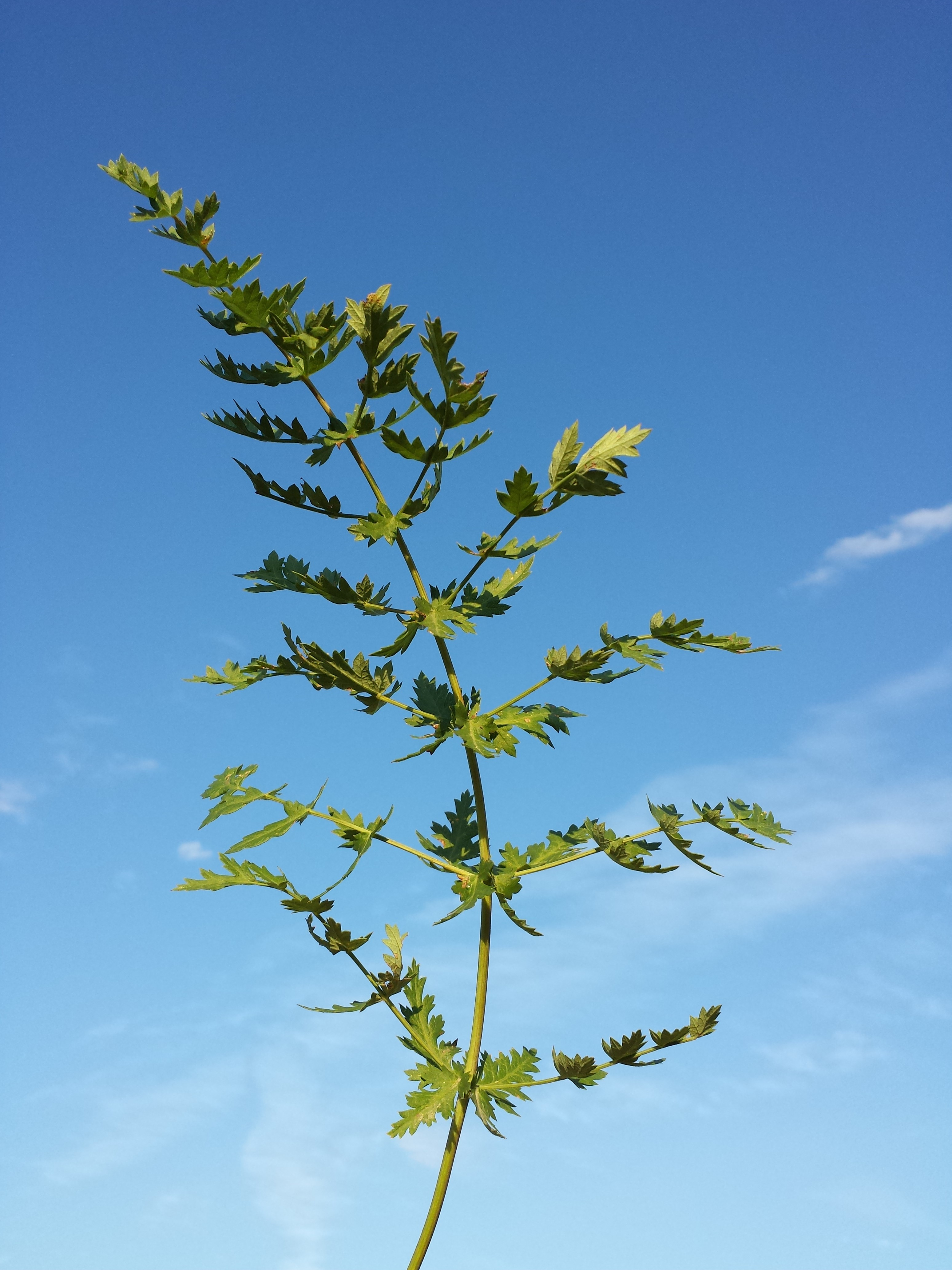 Leaf Taxonym: Seseli libanotis ss Fischer et al. EfÖLS 2008 ISBN 978-3-85474-187-9 Location: Marchfeldkanal near Groß-Jedlersdorf, Vienna-Floridsdorf - ca. 160 m a.s.l. Habitat: fallow land